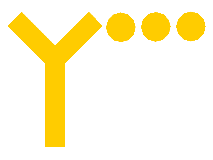 Mark of Ww2 GermanDivision Panzer 10 - 1940